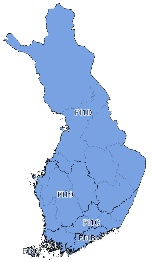 A map of the 2013 NUTS (Nomenclature of Territorial Units for Statistics) subdivisions of Finland. Coordinate reference system is ETRS89 / ETRS-LAEA (EPSG:3035).